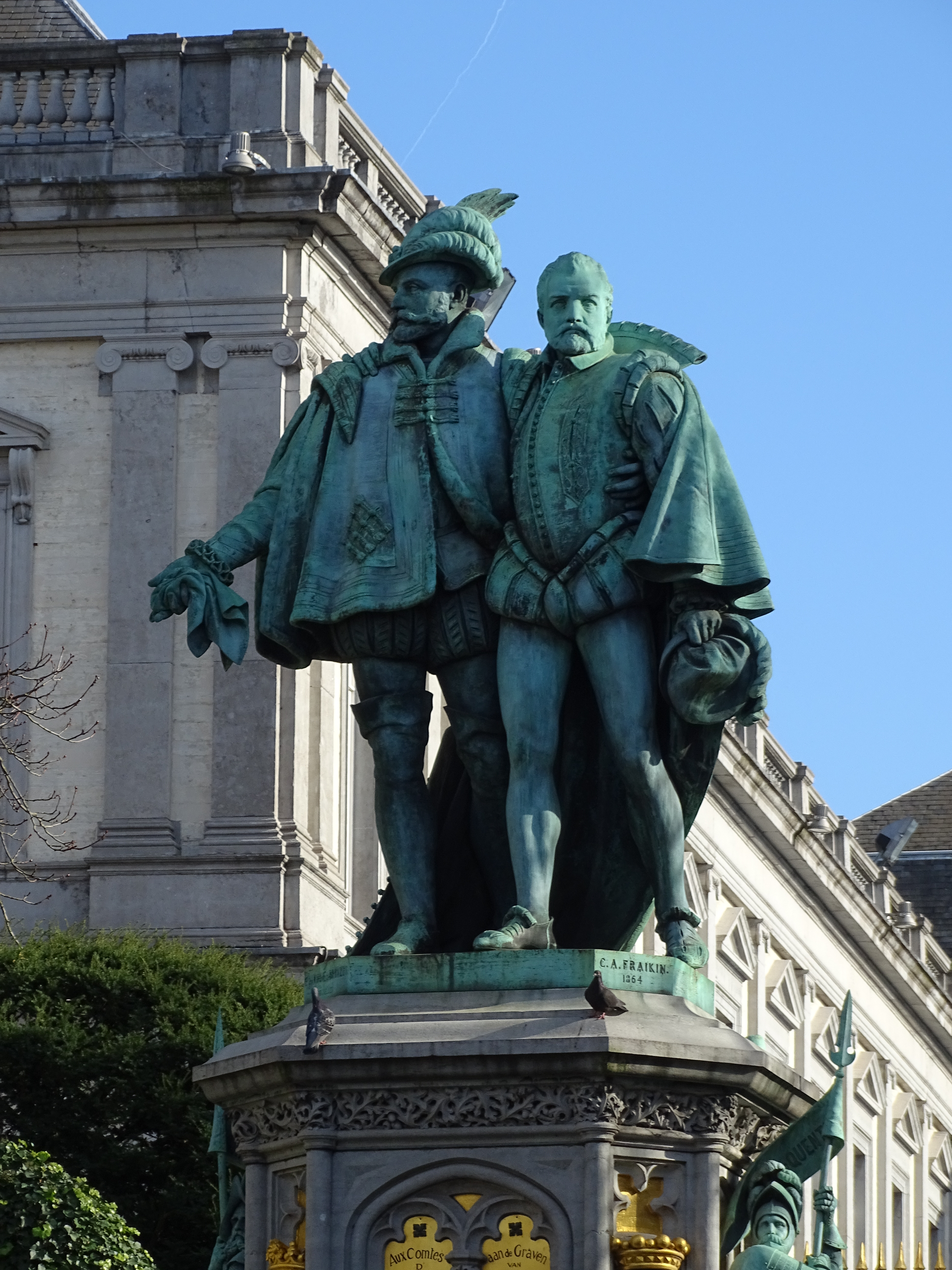 Statue, by Charles-Auguste Fraikin, erected on the Petit Sablon / Kleine Zavel Square in Brussels commemorating the Counts of Egmont and Horn.